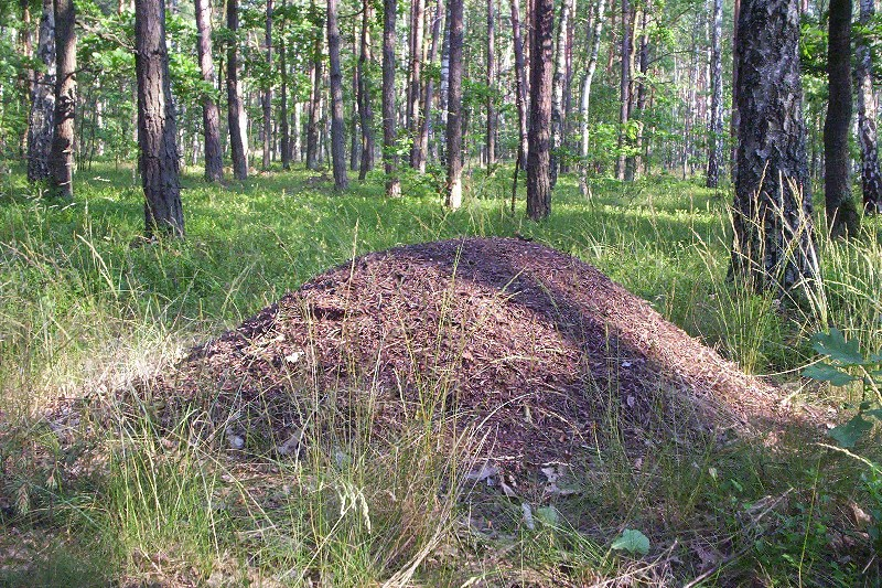 Ant hill (probably Formica rufa) in forest near Żyrardów (Mazovia, Poland)